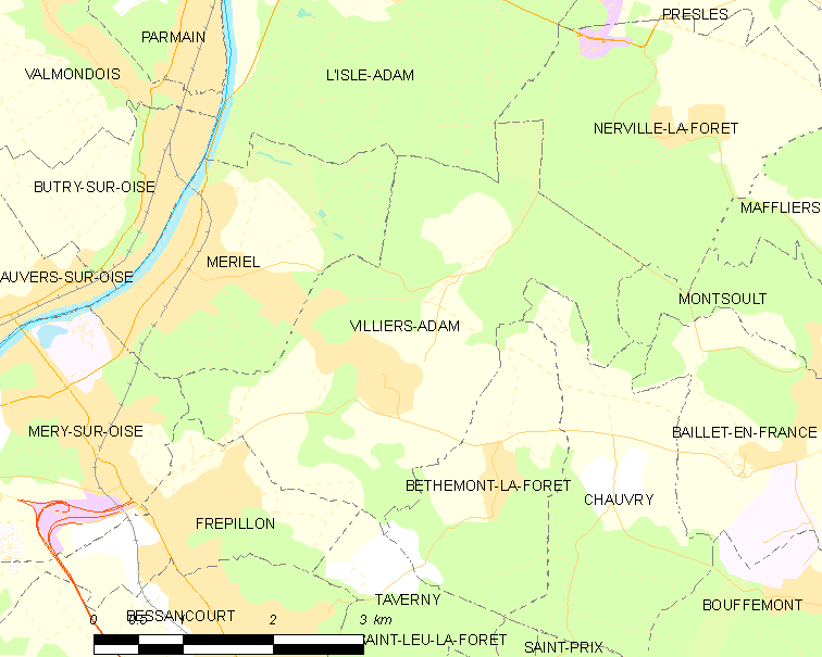 Map of French municipality Villiers-Adam